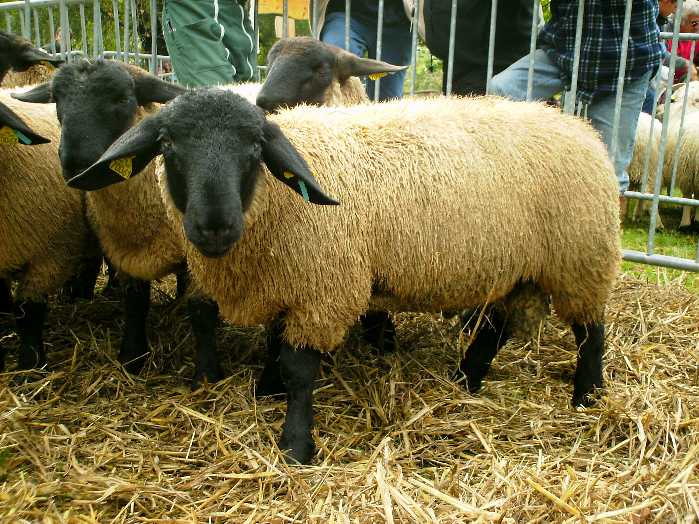 Sheep, "Suffolk" race